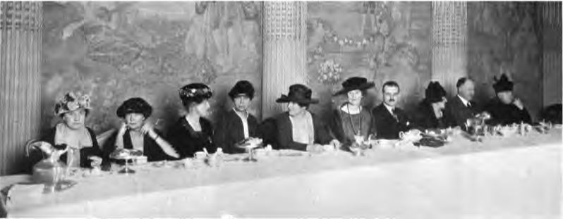 Kathleen Norris, California author, before the San Francisco Center at a luncheon held in the colonial ballroom of the St. Francis Hotel, November, 1921. Literary folks from the bay cities were in attendance. Mrs. Parker Maddux, president of the Center, is seated at the honor table with Kathleen Norris at her right and Charles Norris at her left. Prominent members and relatives of the honor guests seated, from left to right, at the table are: Mrs. Ernest Wallace, Mrs. Joseph S. Thompson, Mrs. Ernest W. Cleary, Mrs. Ida Finney Mackrille, then, Kathleen Norris, Mrs. Parker Maddux, Charles Norris, Mrs. C.S. Stanton, Mr. Joseph Thompson (brother of Kathleen Norris) and Mrs. E.B. Thomas, Who's who among the women of California